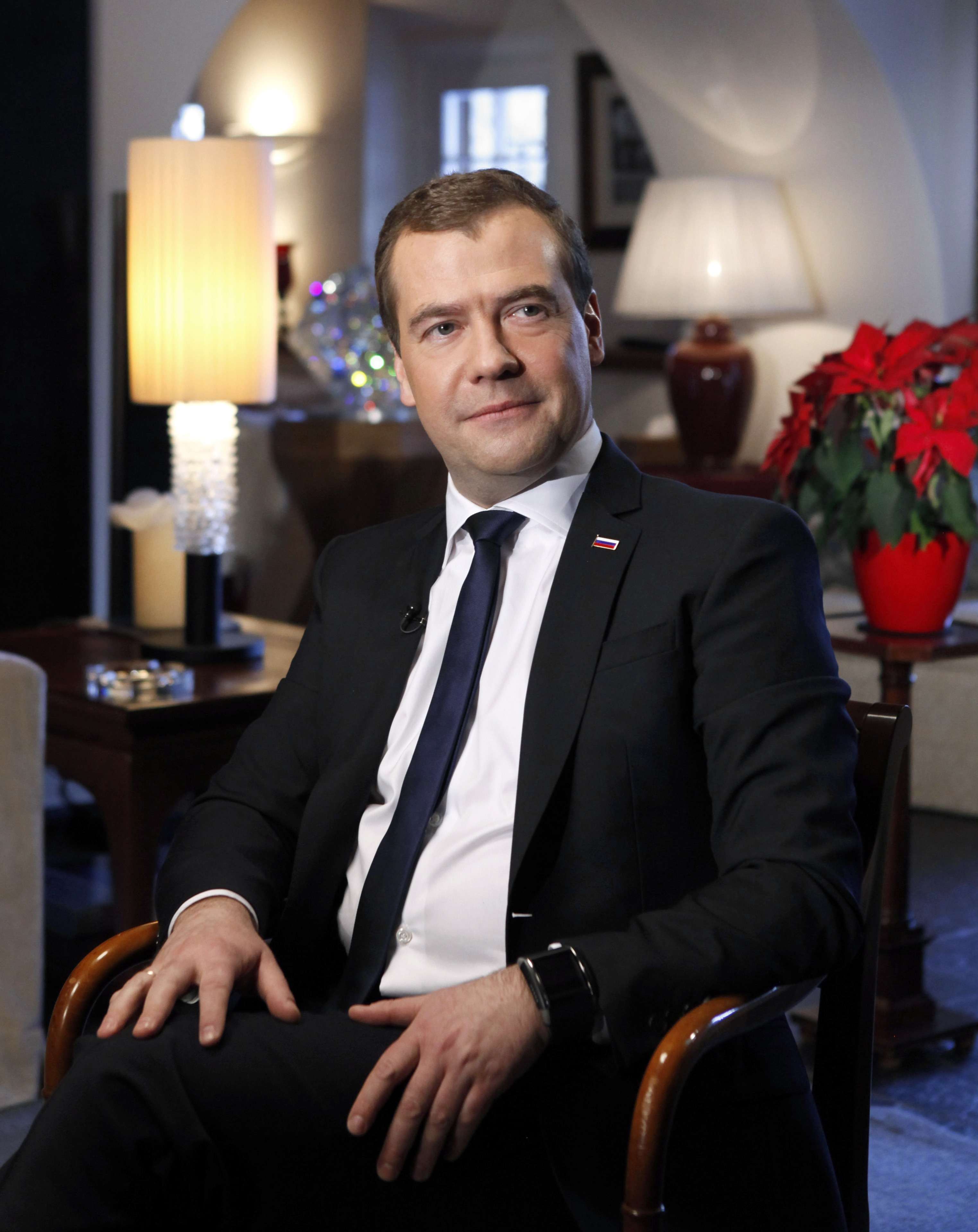 Dmitry Medvedev’s interview with CNN (2013-01-27).